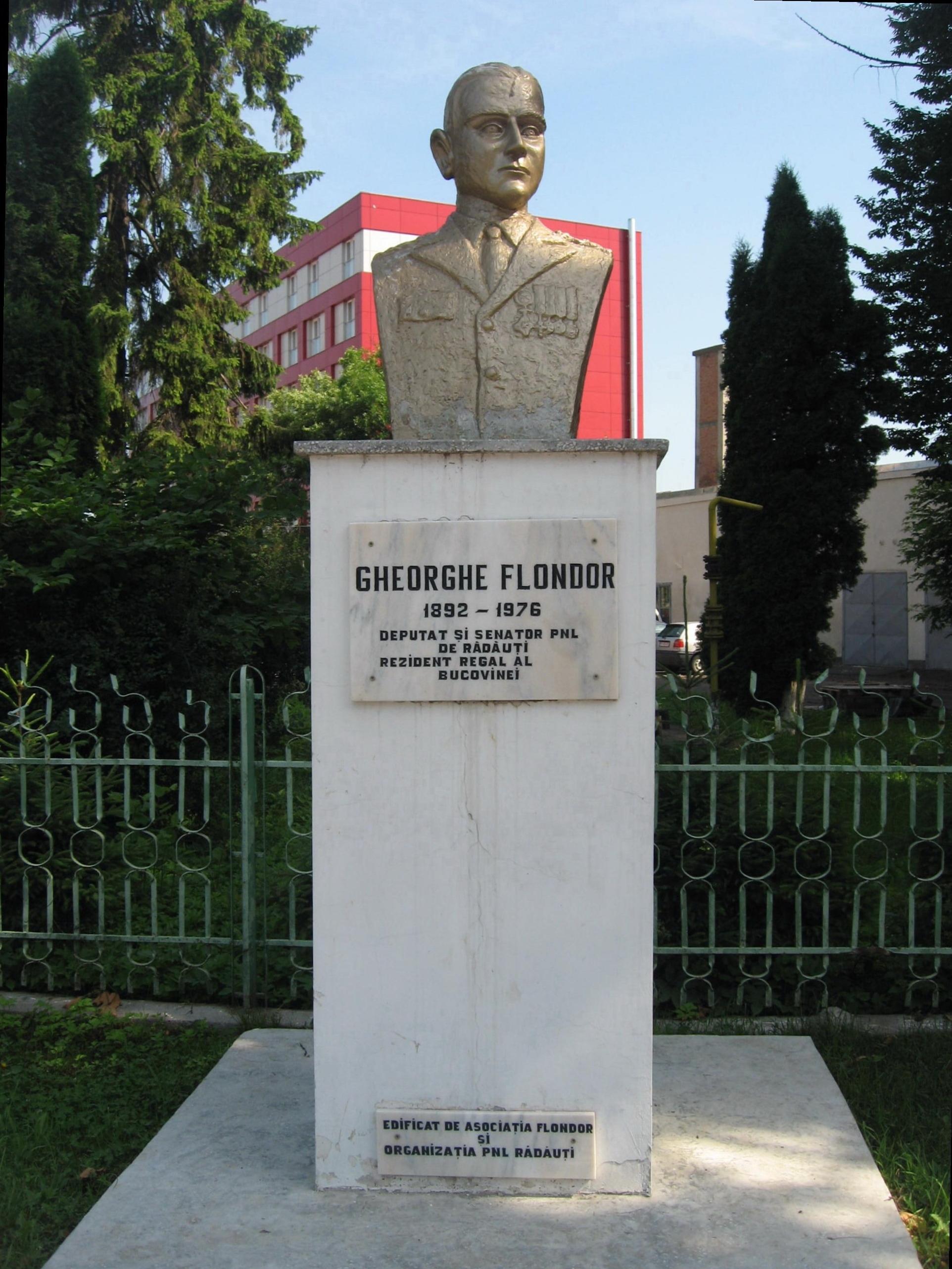 Statue of Gheorghe Flondor in Radautz